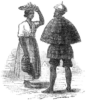 Ilocano man and woman circa 1820s